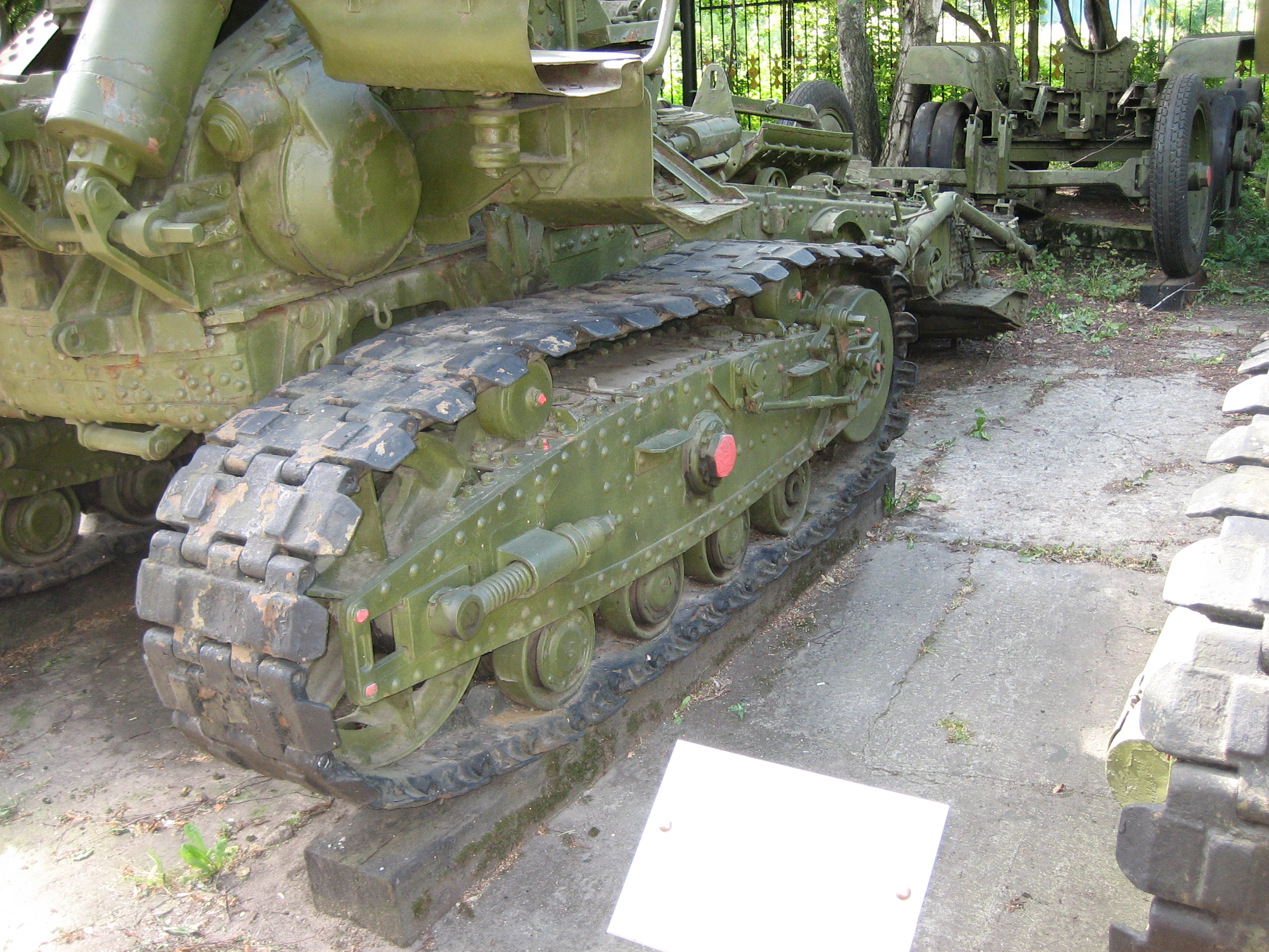 Soviet 152mm Br-2 Mark 1935 gun, displayed in Moscow Military Museum. Photo taken on 19 July, 2007. Source: Photo by me, User:Saiga20K.